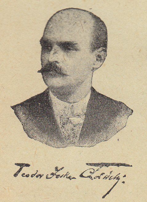 Teodor Jeske Choiński